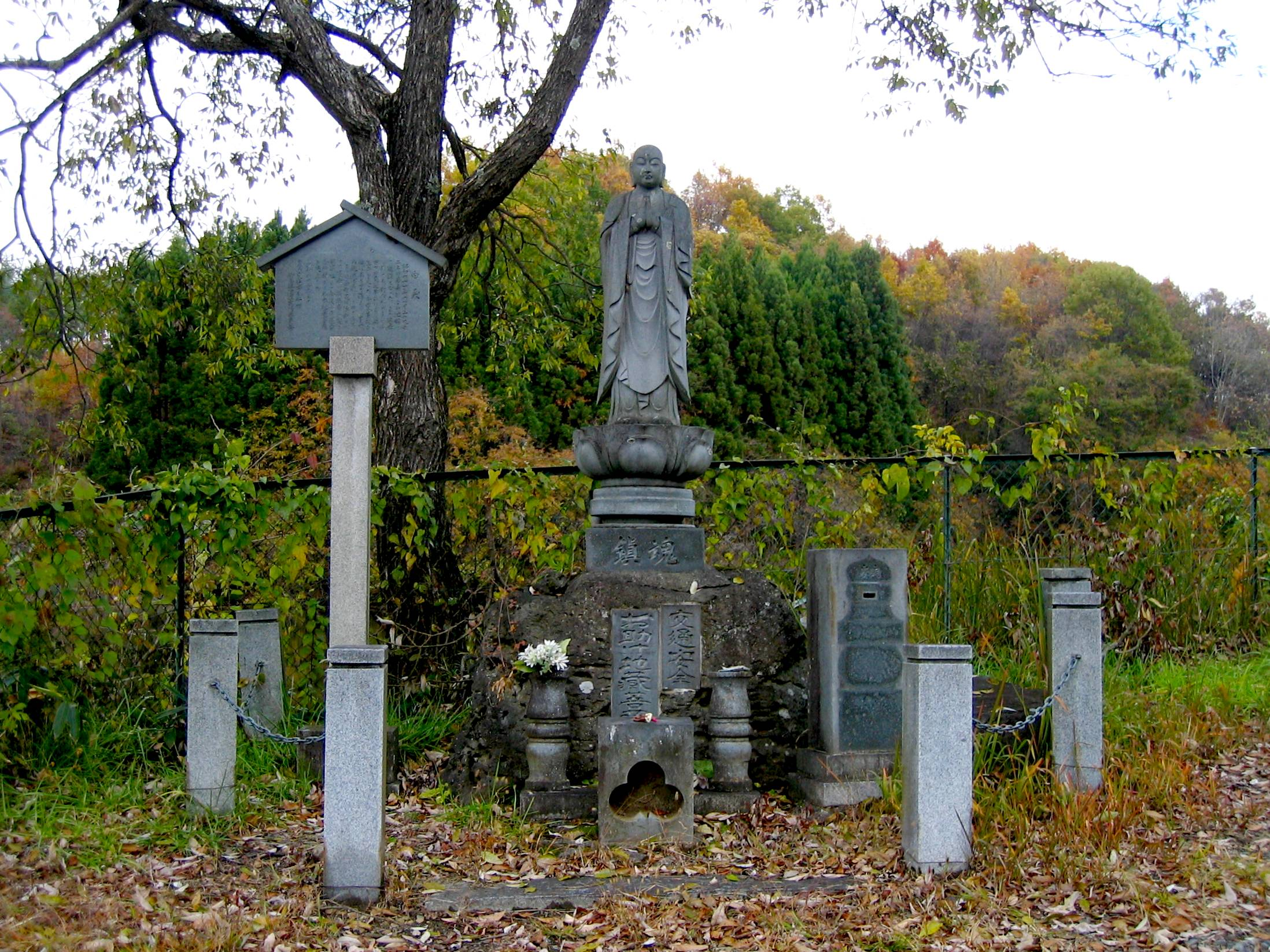 Yomeike (嫁殺しの池) is a pond in Nagano city, Nagano prefecture, Japan.